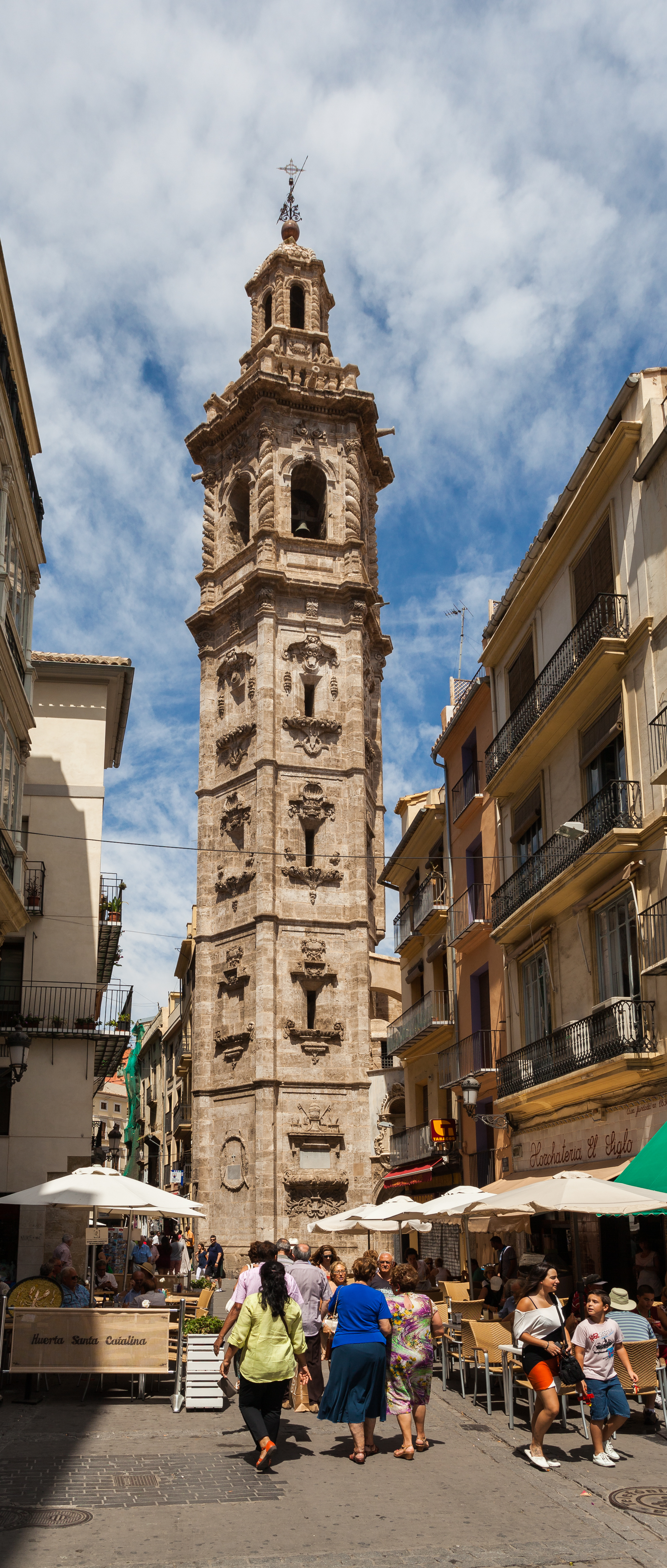 Tower of Santa Catalina, Valencia, Spain